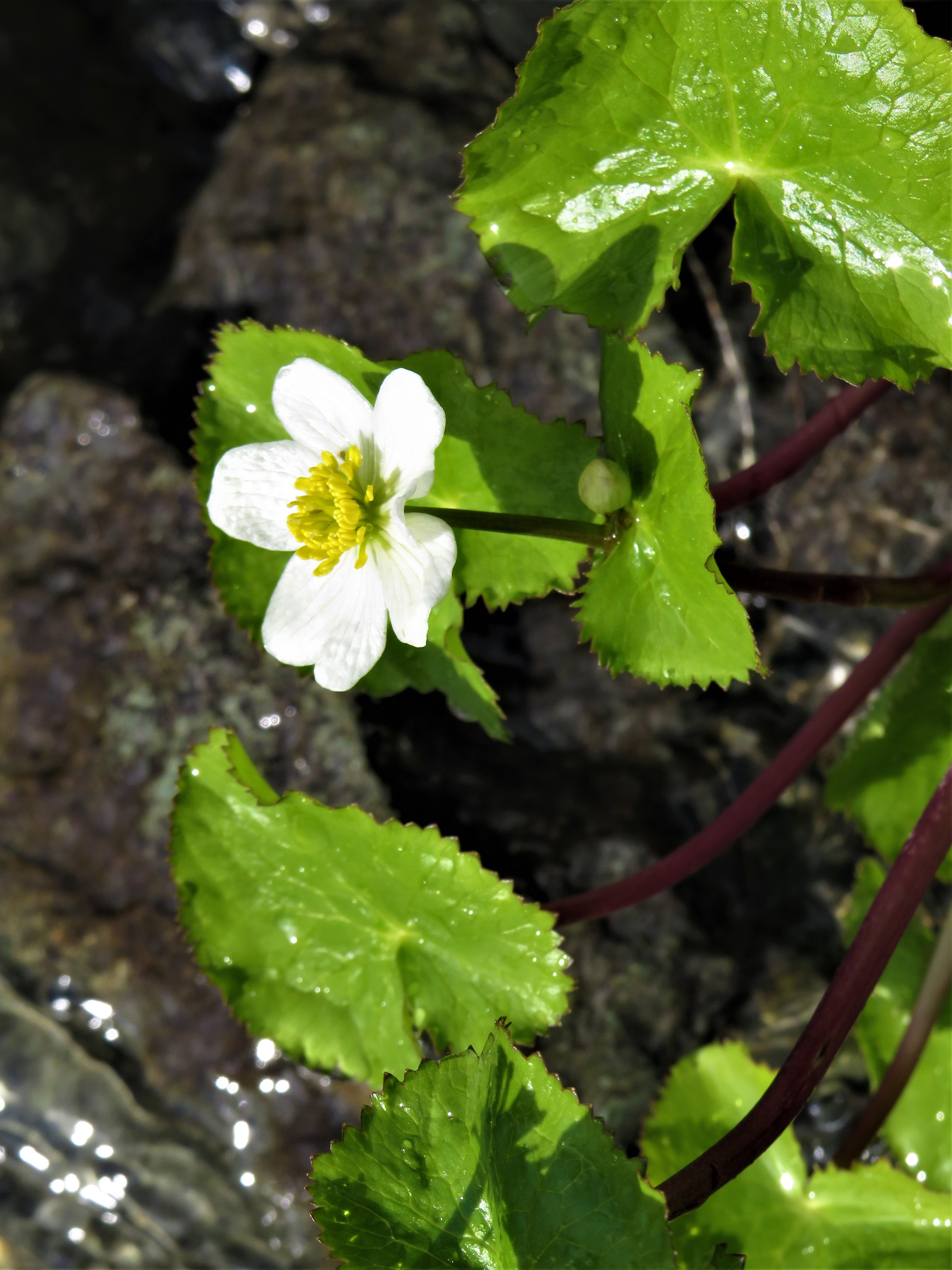 white marsh marigold found in the Himalayas near Sonamarg